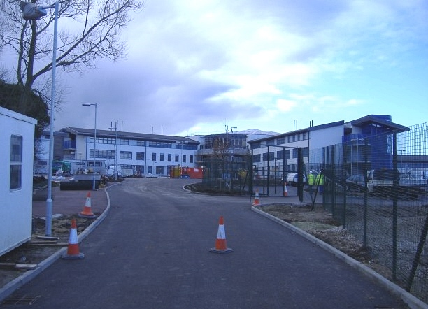 New school on Akers Way. Nova Hreod Academy - A new school complex was being constructed next to Hreod Parkway comprehensive in 2007.